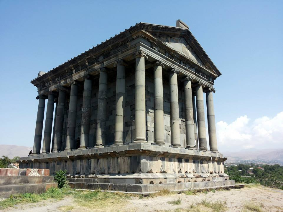 The temple of Garni (from Arc-Team photo archive)